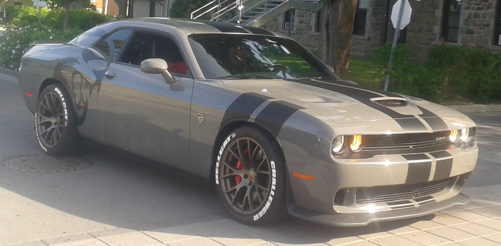 Dodge Challenger Hellcat photographed in Ste. Anne De Bellevue, Québec, Canada at the car show Cruisin' At The Boardwalk 2018.